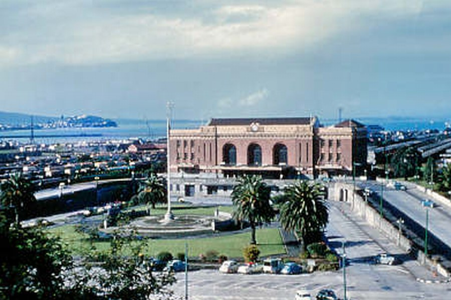 The former Auckland Railway Station in Auckland City, New Zealand as it was around 1960. Behind it, the platforms can be seen.